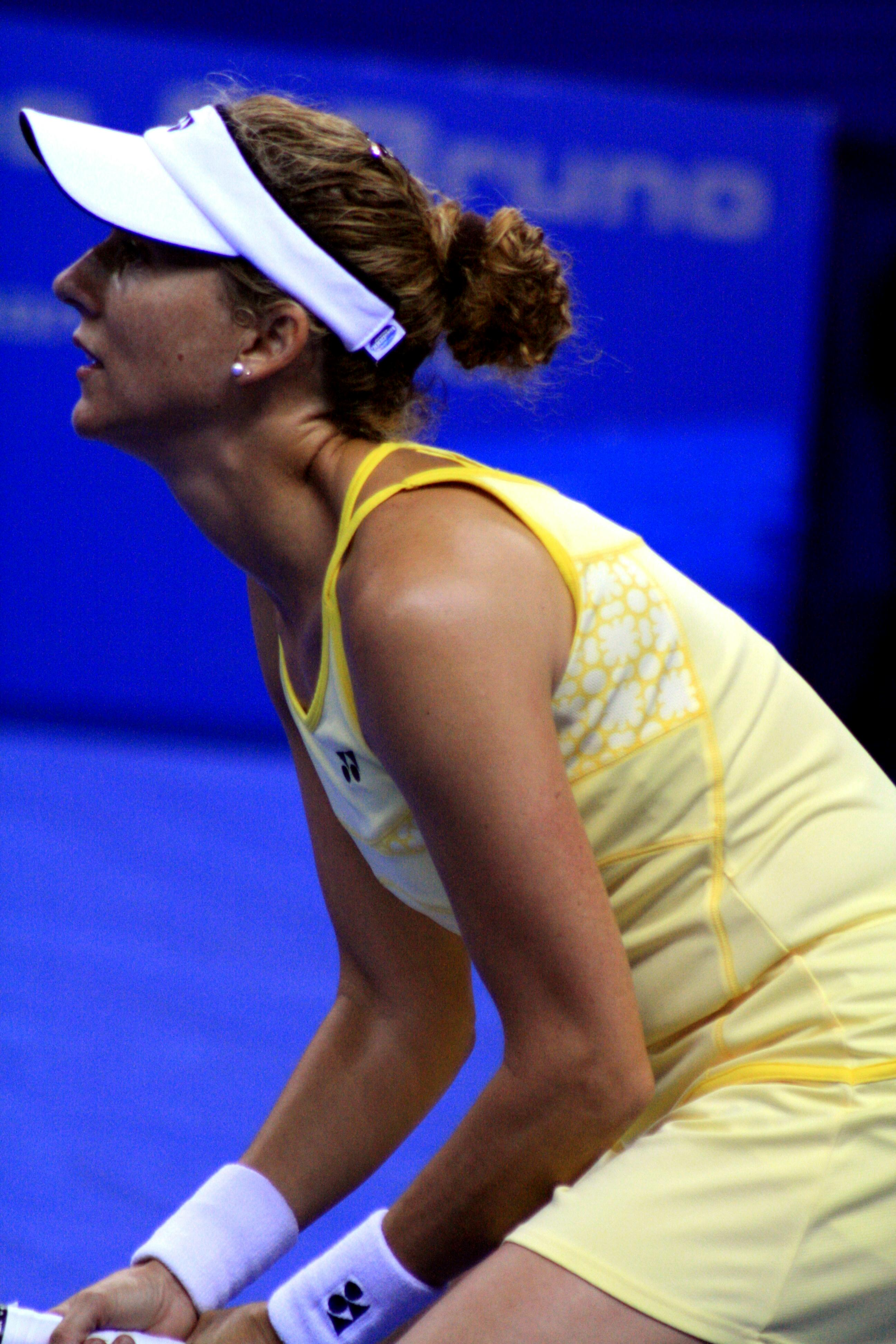 Monica Seles in the 2007 exhibition against Martina Navratilova in New Orleans, Louisiana